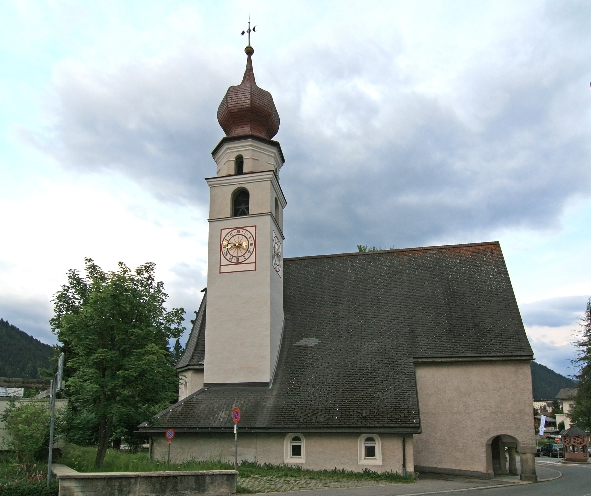 Church of St. Theodul, Davos, Switzerland.